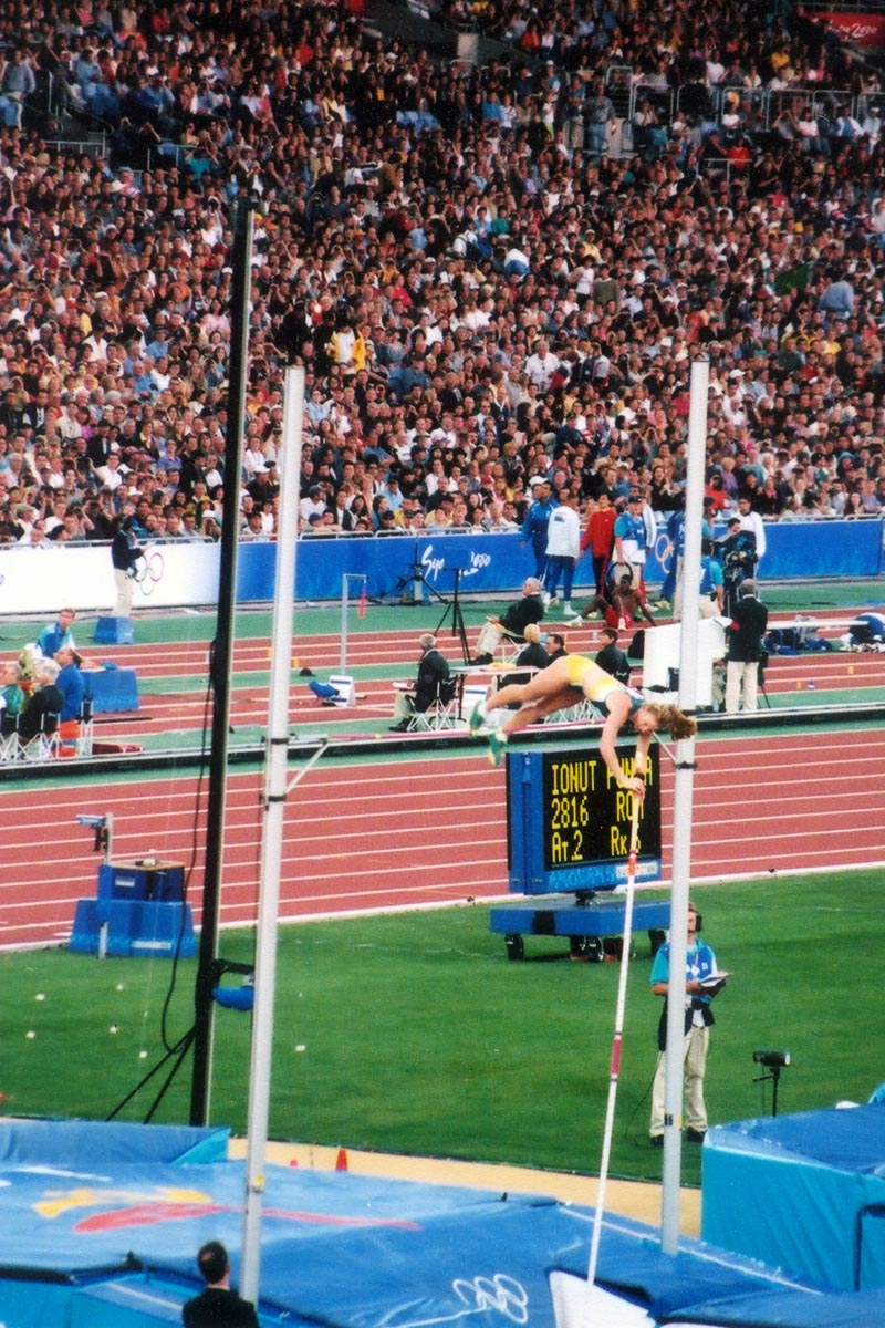 Olympic Polevolt final